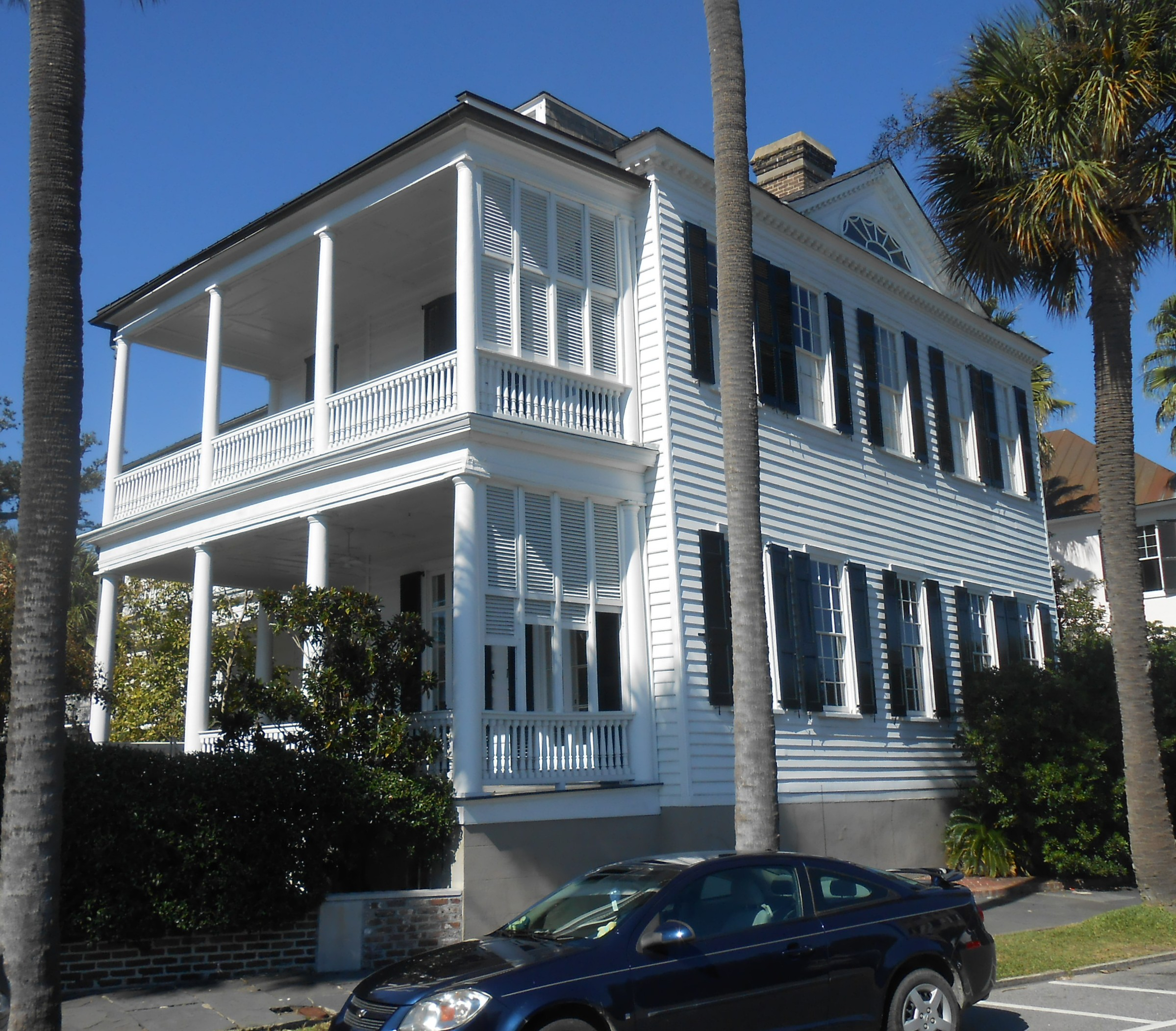 39 East Battery, Charleston, South Carolina